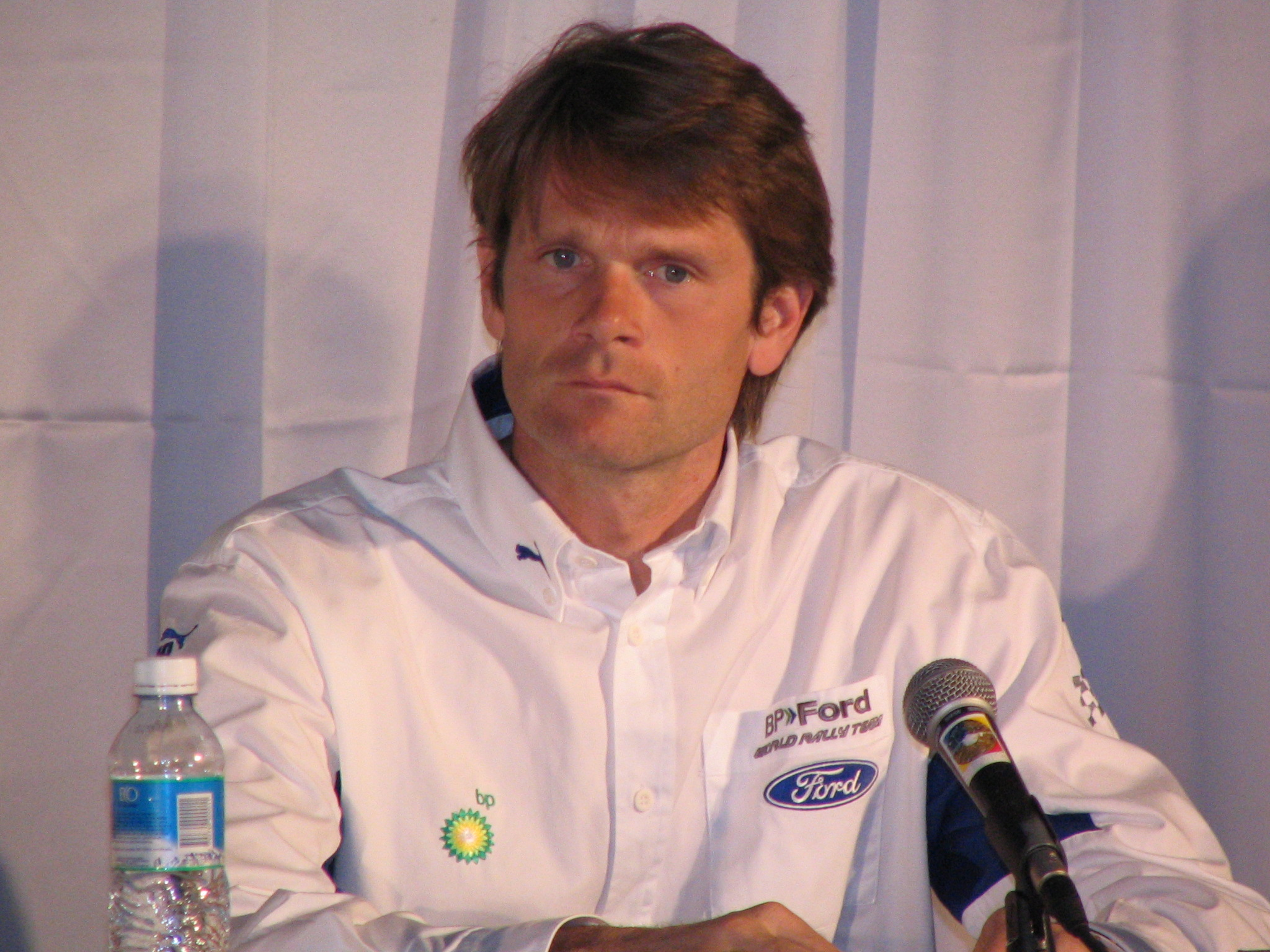 Ford press conference on wednesday night at Rally Argentina 2006.